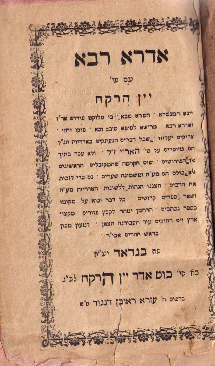 Book of Idra Raba with commentary, Baghdad 1908